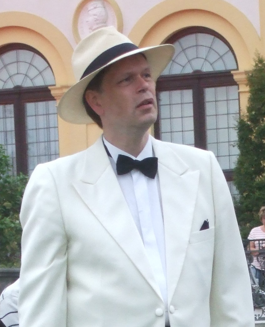 Patrik Ringborg 206